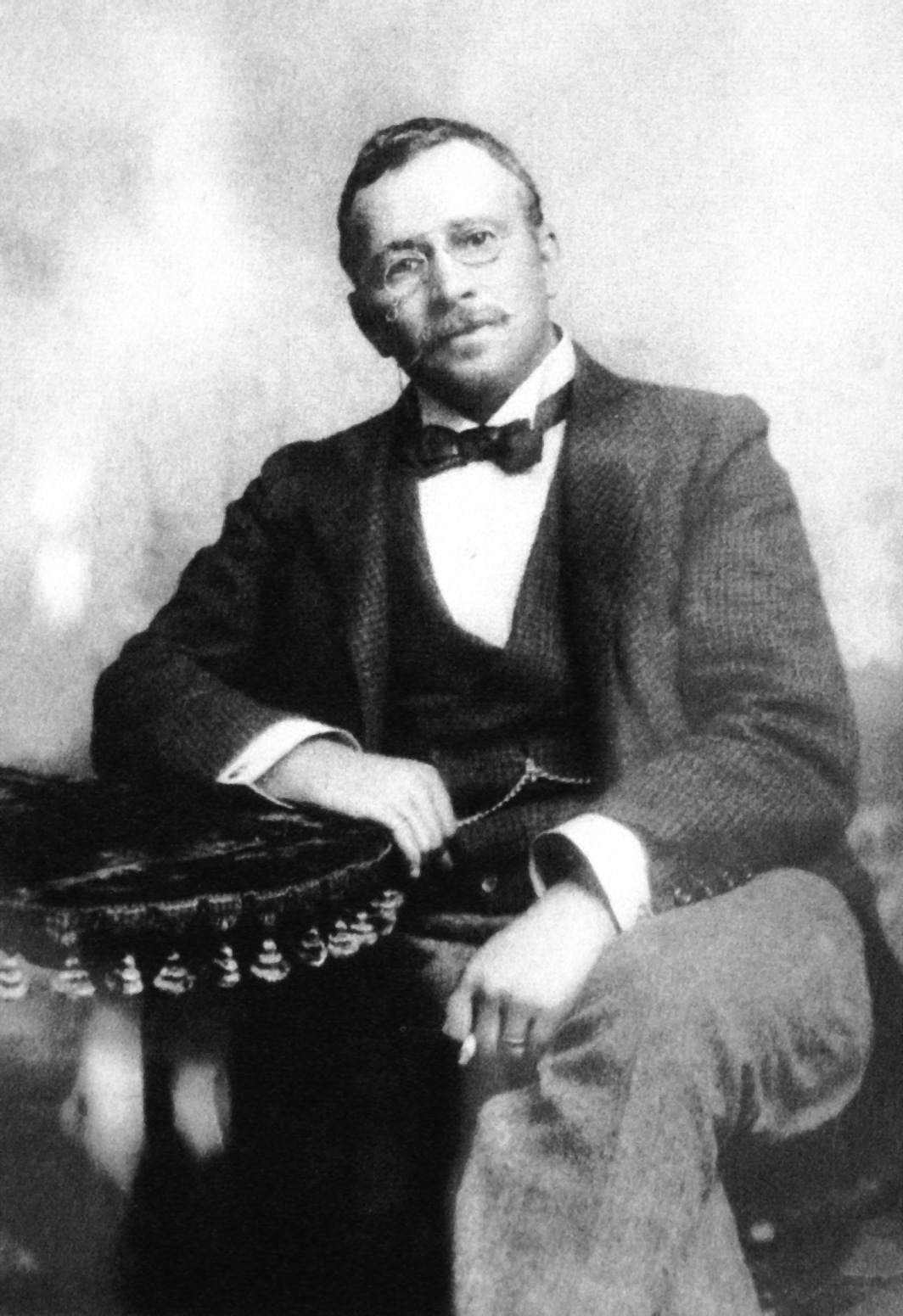 Portrait of Barney Barnato (1852-1897)